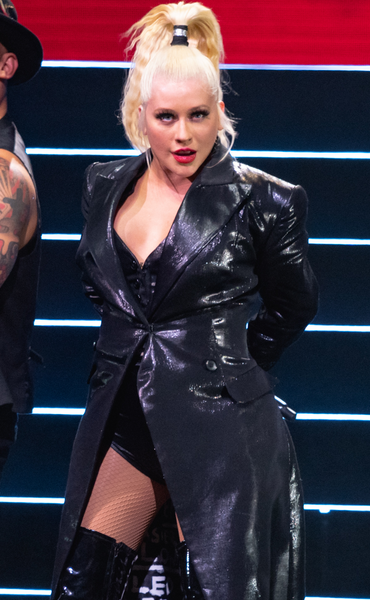 Christina Aguilera performing on The X Tour at SSE Wembley, in 2019.